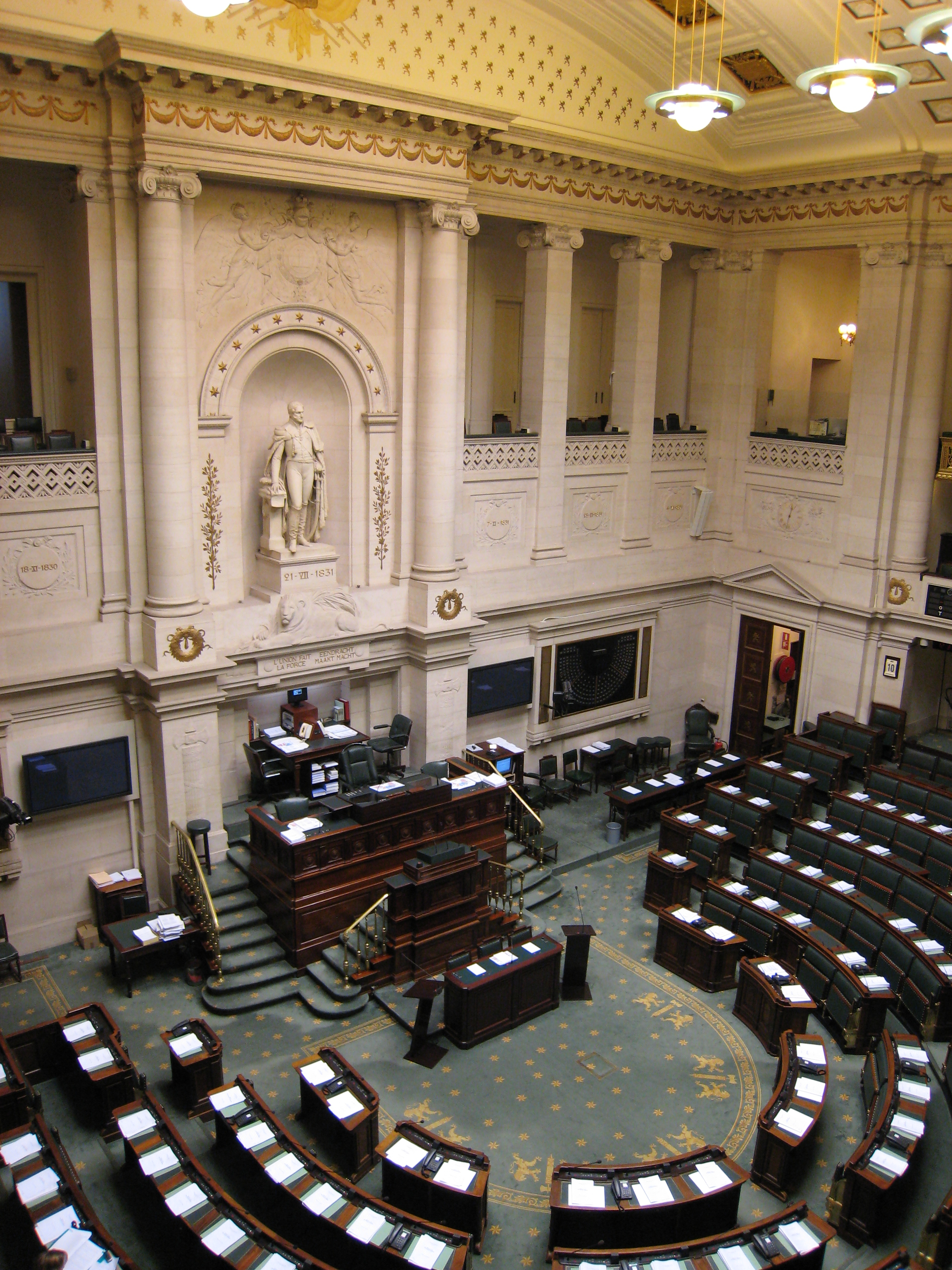 Inside view of the Chamber of Representatives of Belgium